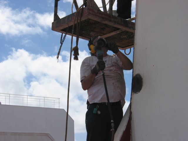 Able seamen perform maintenance on a ship's mast.